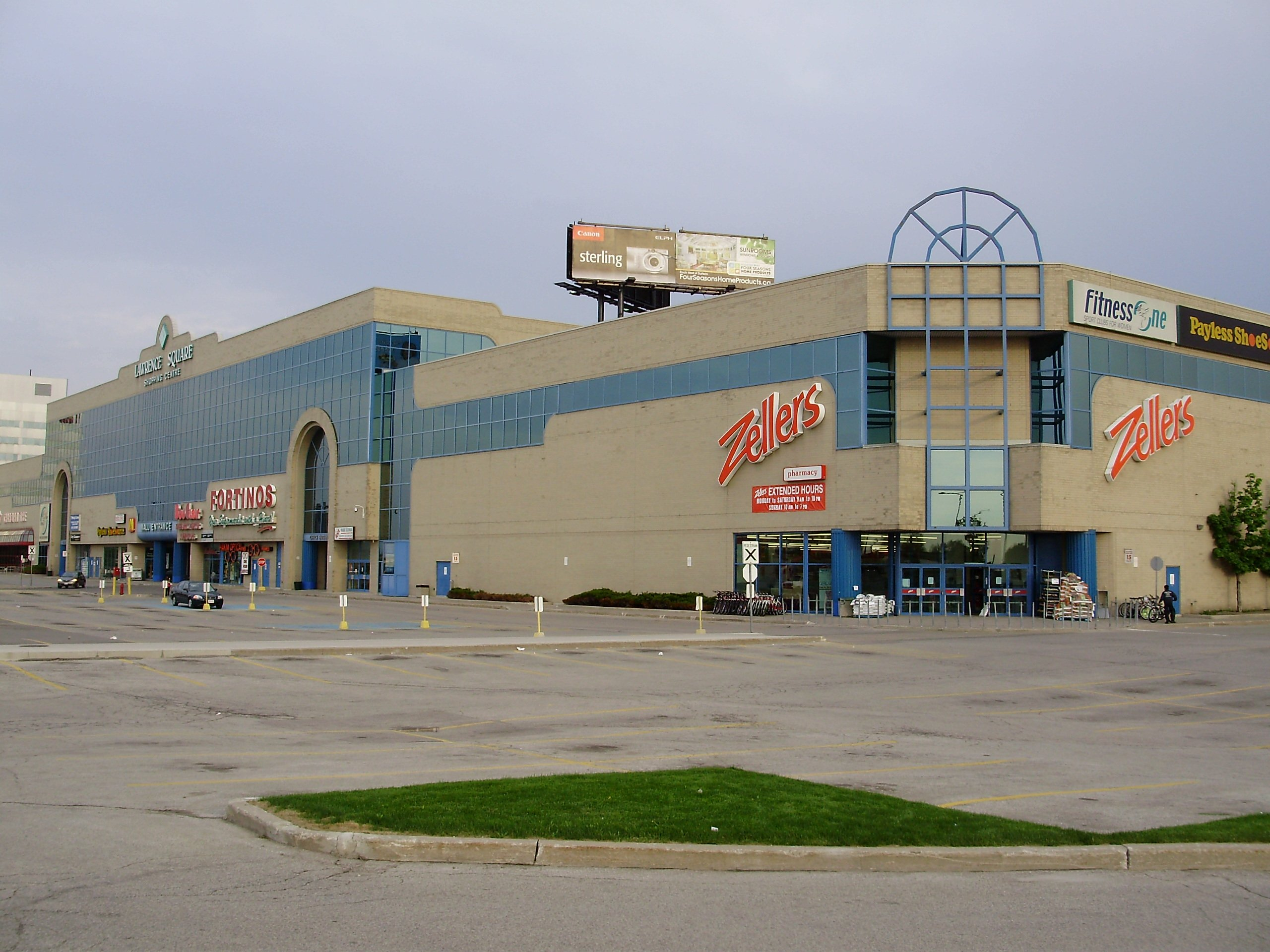 Lawrence Square Shopping Centre, photographed from the southeast corner of its parking lot, in North York, Ontario, Canada.